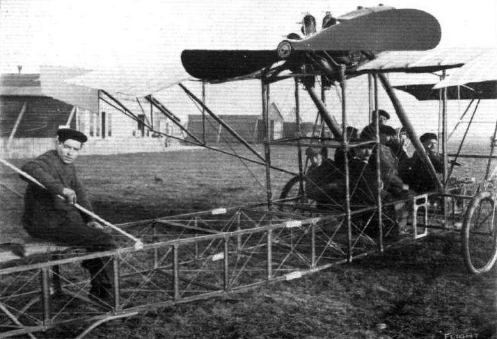 Photo of Blériot XIII monoplane circa 1911